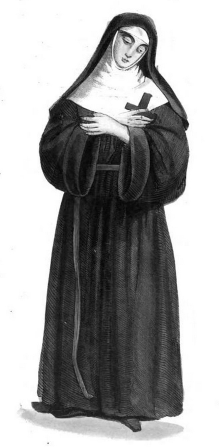 Picture from René Tiron, Histoire et costumes des ordres religieux, civils et militaires, Volume 1, Librairie historique-artistique, 1845